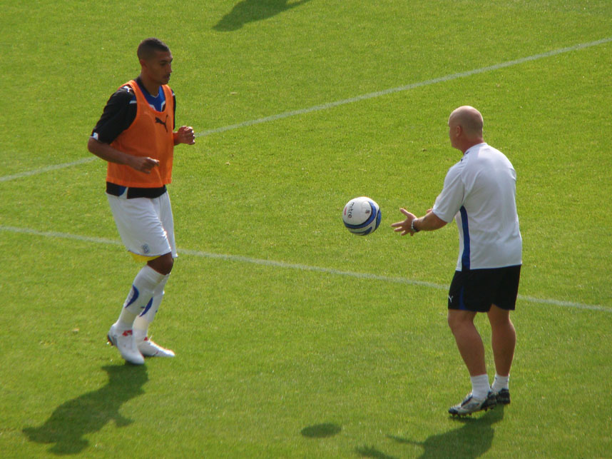 19/09/09 Cardiff V QPR, Cardiff City Stadium, Cardiff, Wales